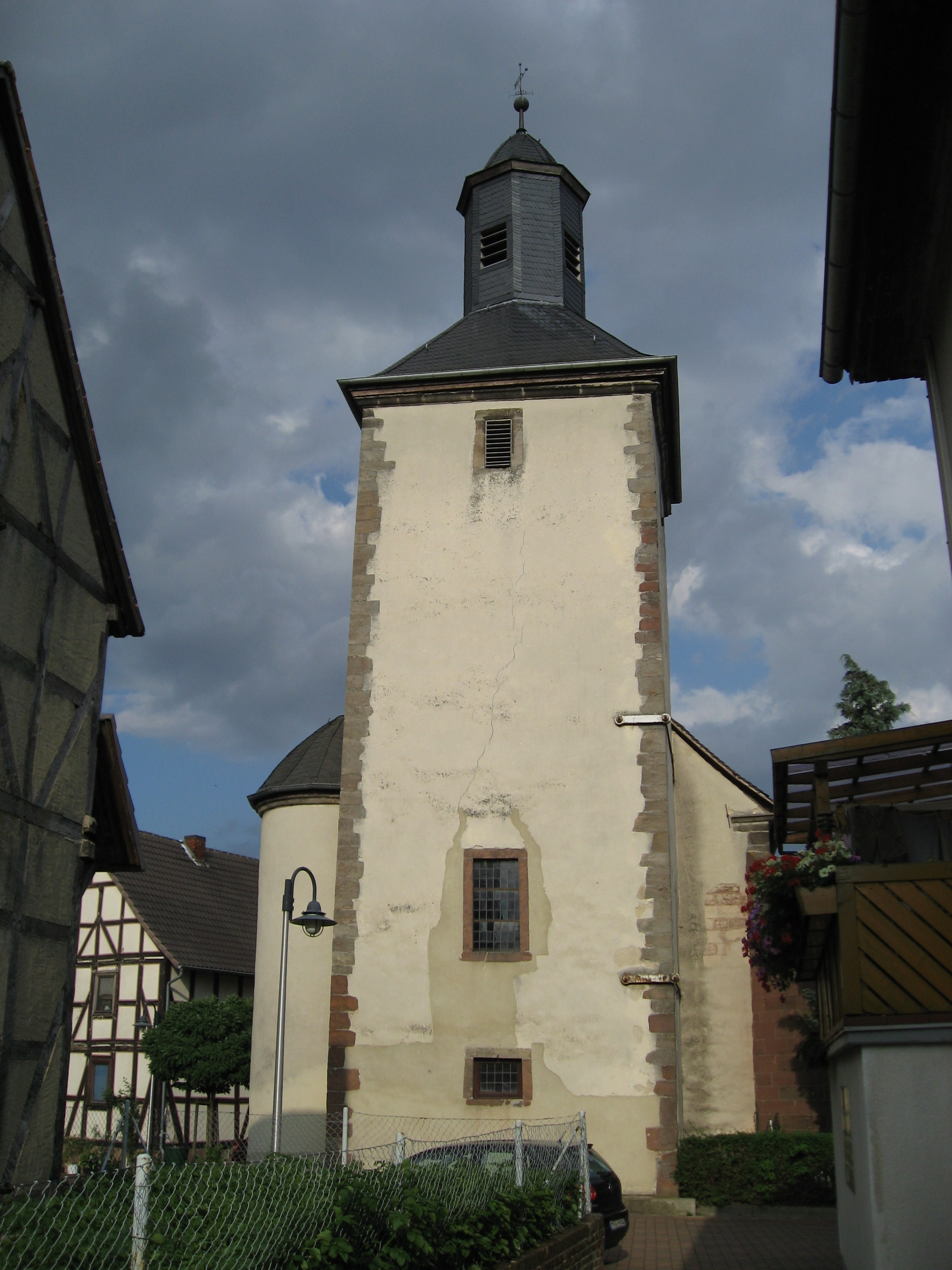 Church of Dillich